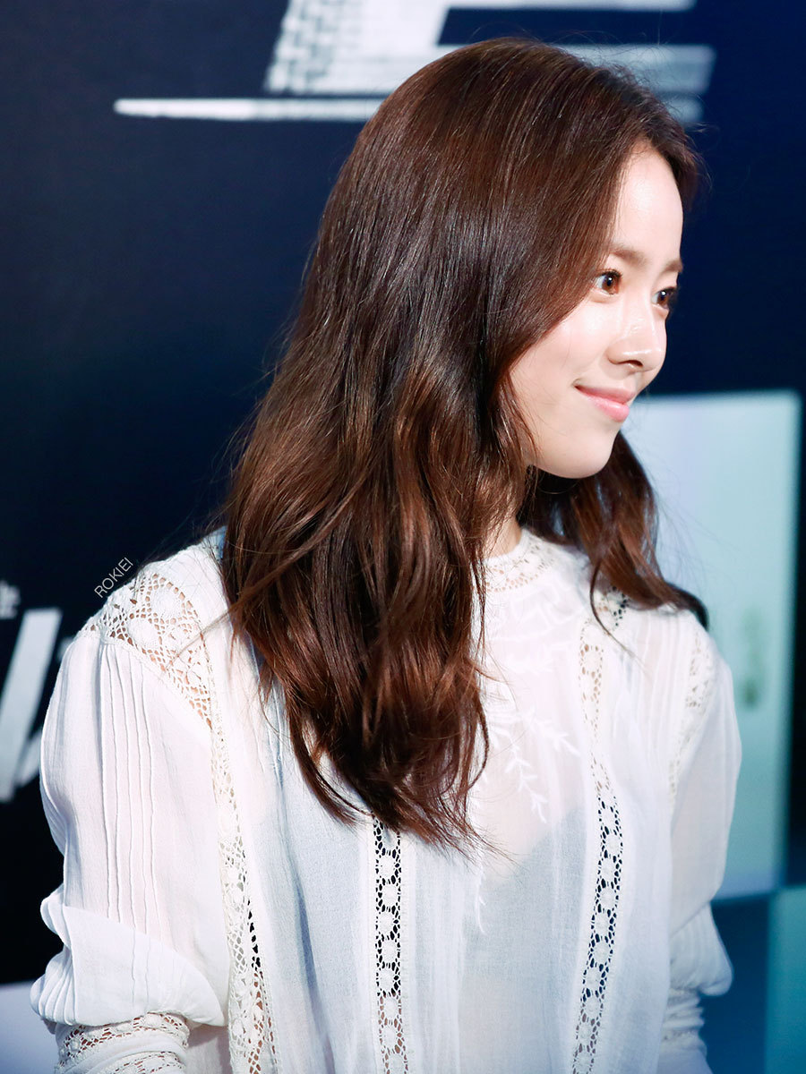 Han Ji-min at the Cold Eyes premier.